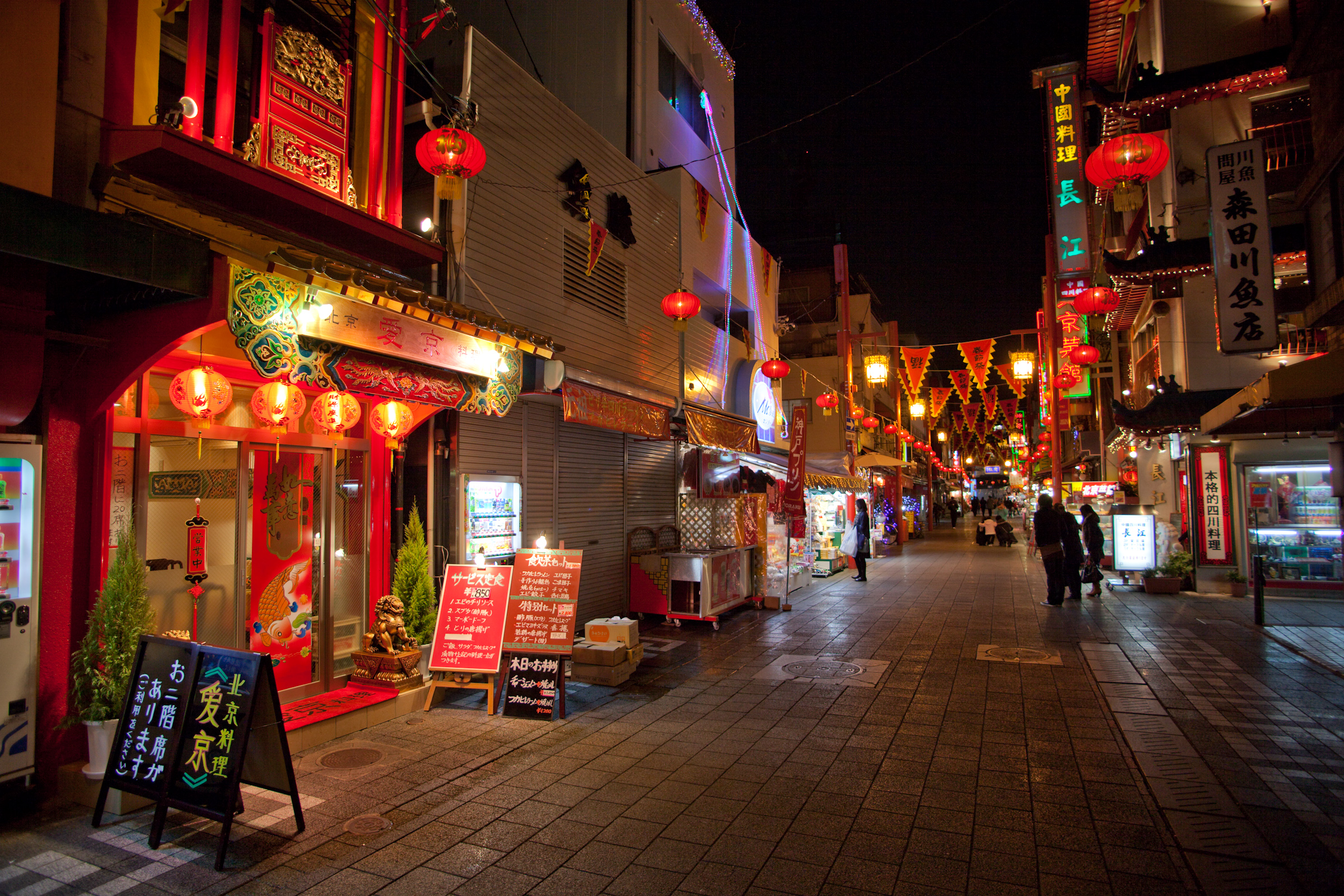 Kobe Nankinmachi at night